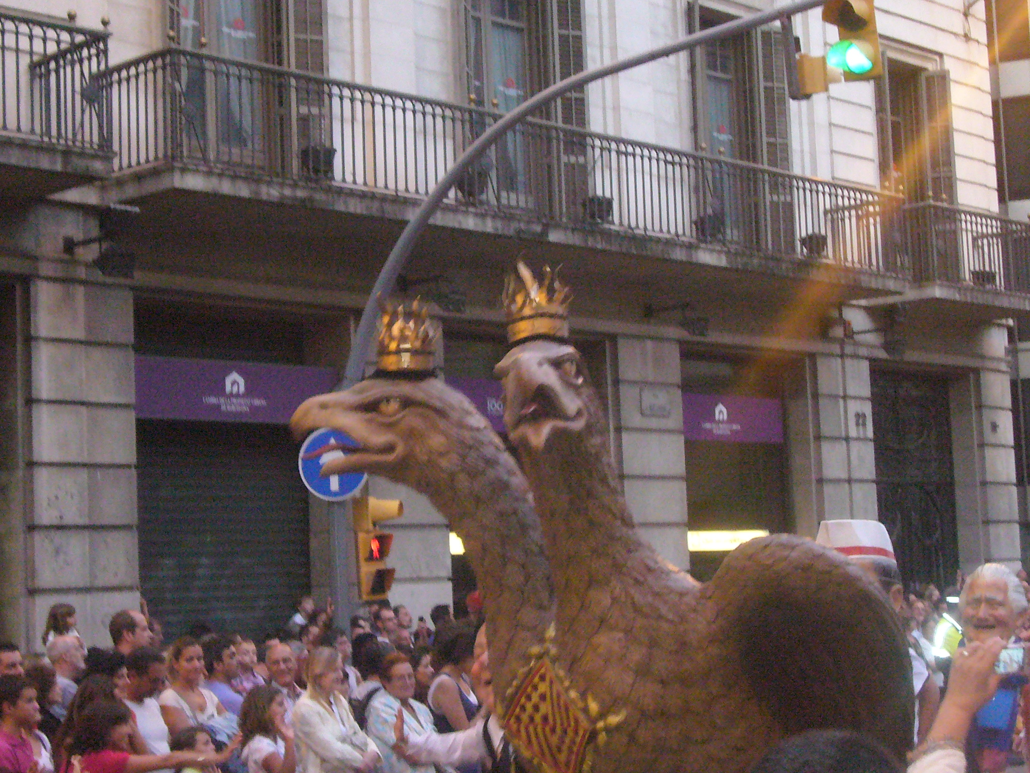 Festivity of La Mercè 24-9-2011 in Via Laietana, Barcelona. Double-headed eagle from Tàrrega